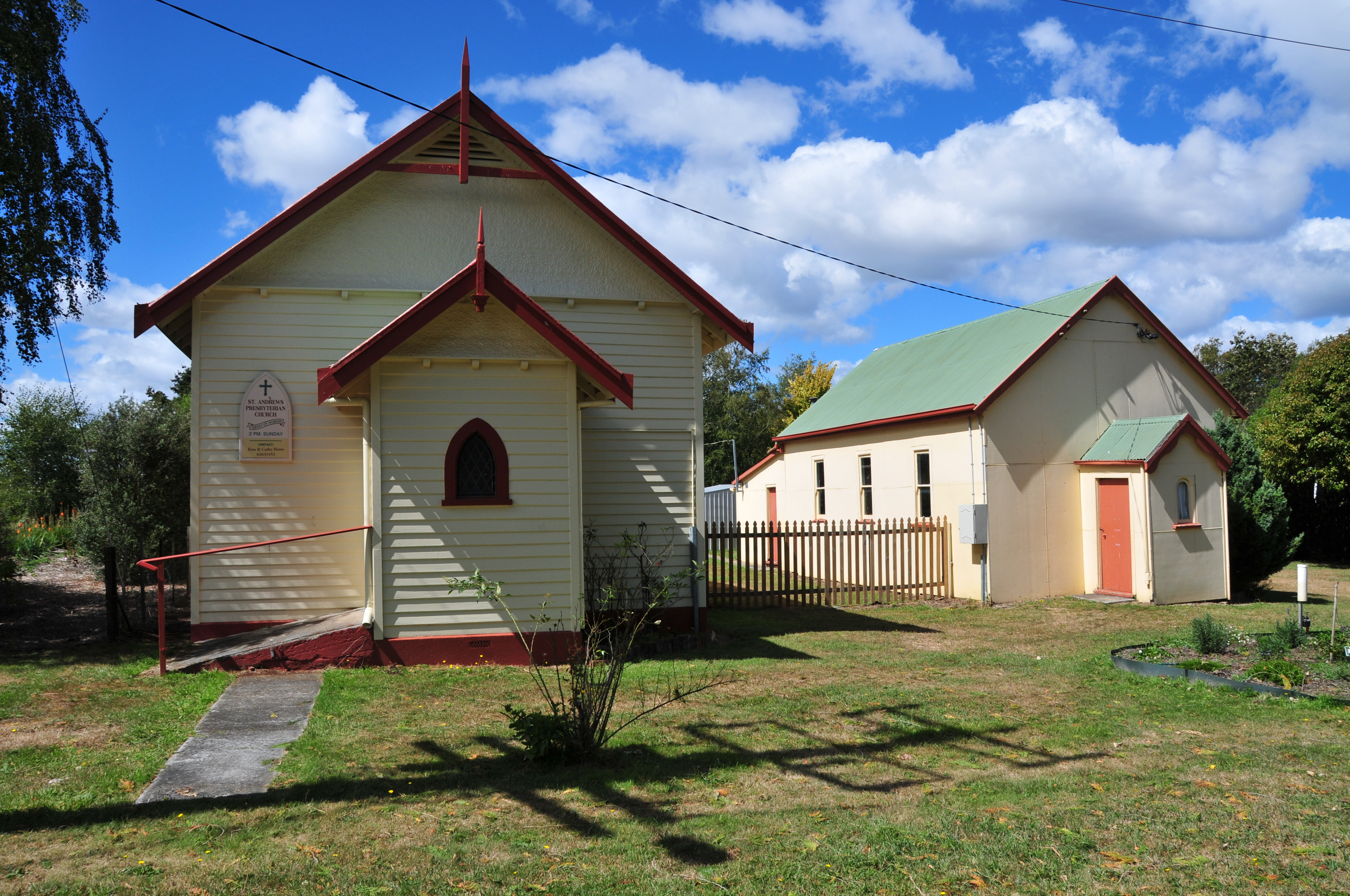 St Andrews Presbyterian church Mole Creek , Tasmania, Australia